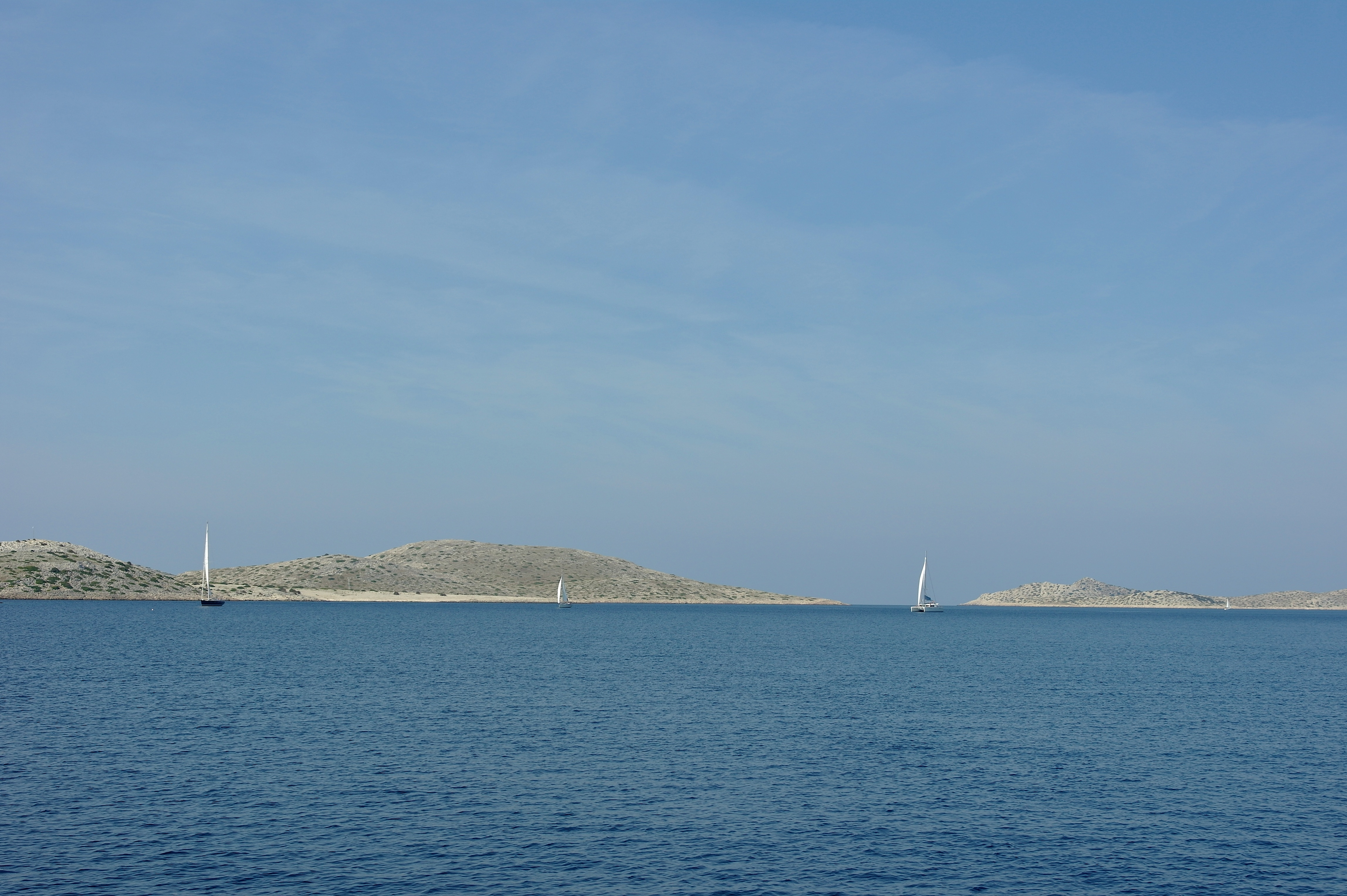 Kornati islands, Croatia.